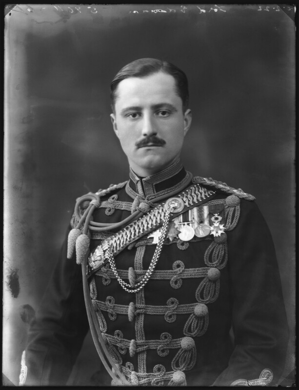 Portrait of William Humble Eric Ward (1894–1969)